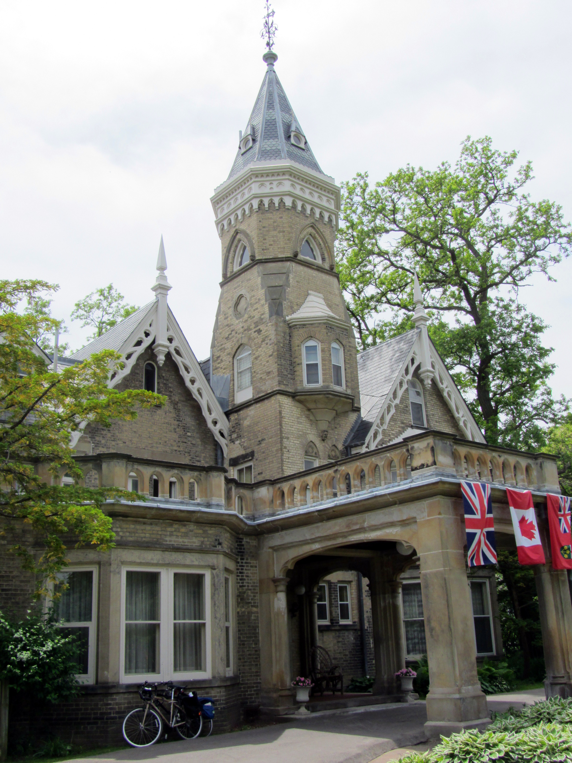 The school moved into this old mansion in the 1930s. Now that they have a new main building, the house seems to be used as kind of a community centre ro something.